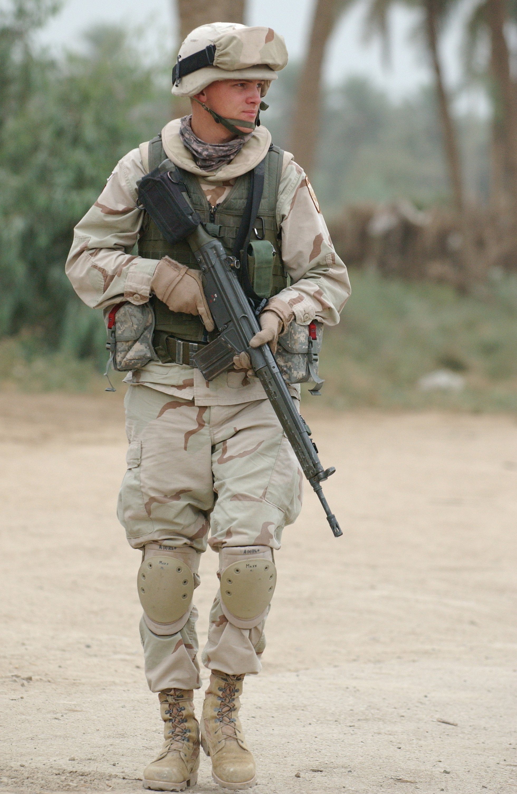 A Latvian army soldier provides security for U.S. Army soldiers and Polish Army Police Transition Team (PTT) members as they visit an Iraqi police station in Al Shamiya, Iraq, Oct. 21, 2006. Latvian soldiers are providing security for the Polish PTT who are visiting Iraqi police stations to ensure they are being run in accordance with Iraqi law. The Polish PTT is responsible in helping train the Iraqi police force to prepare them to better protect the citizens of Iraq.